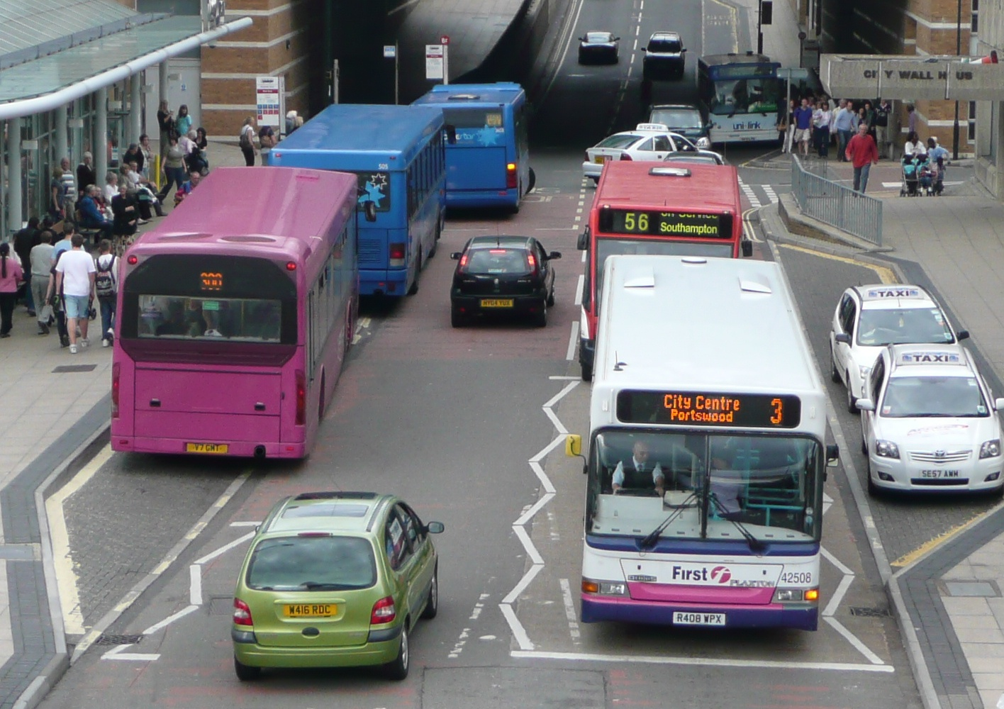 The Arundel Circus entrance of the WestQuay shopping centre in Southampton, England. The view shows the bus stops outside, with five of the city's bus companies; from the bottom left clockwise: Black Velvet Travel's V7 GMT, a DAF SB220/East Lancs Myllennium. Bluestar's 505 (L510 EHD), a DAF SB220/Ikarus Citibus. Bluestar's 2603 (R603 NFX), an Optare Solo. Enterprise's 13 (HX51 LPN), a Dennis Dart/Caetano Nimbus running under the Uni-link contract. A Wilts & Dorset unidentified Optare Solo. First Hampshire & Dorset's 42508 (R408 WPX), a Dennis Dart/Plaxton Pointer.